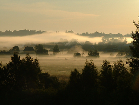 Białowieża/Białowieża National Park, Poland.